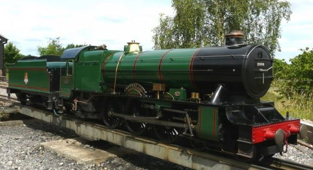 Edward VIII